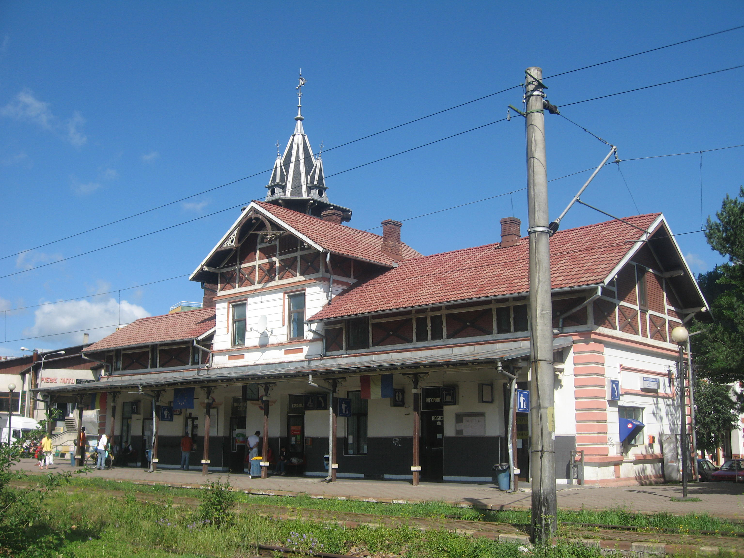 The Railway Station Vatra Dornei Băi, Romania